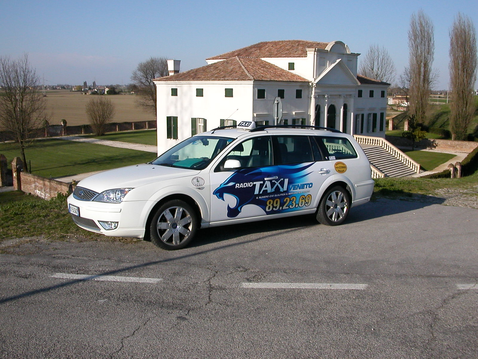 Ford Mondeo SW Taxi Italy in Polesella (Rovigo)